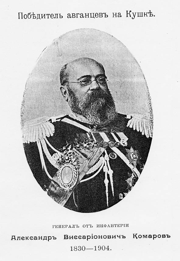 Komarov, Aleksandr Vissarionovich.